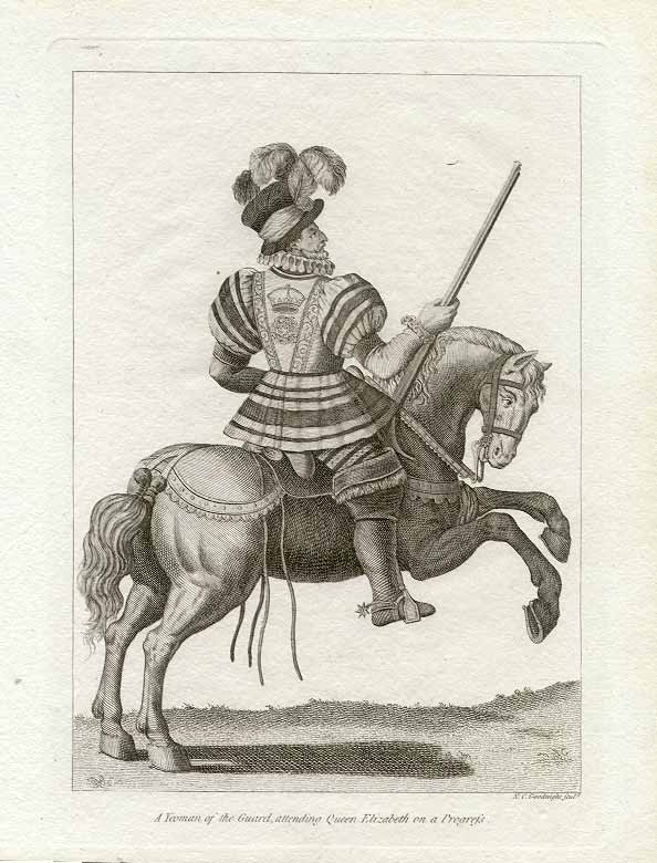 Copper plate engraving entitled A Yeomen of the Guard Attending Queen Elizabeth, original size 10½” by 8½” (27 cm by 21.5 cm)